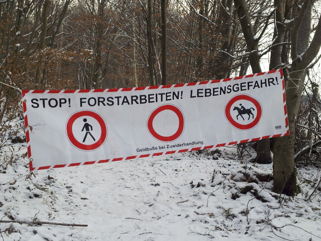 German forestry warning sign